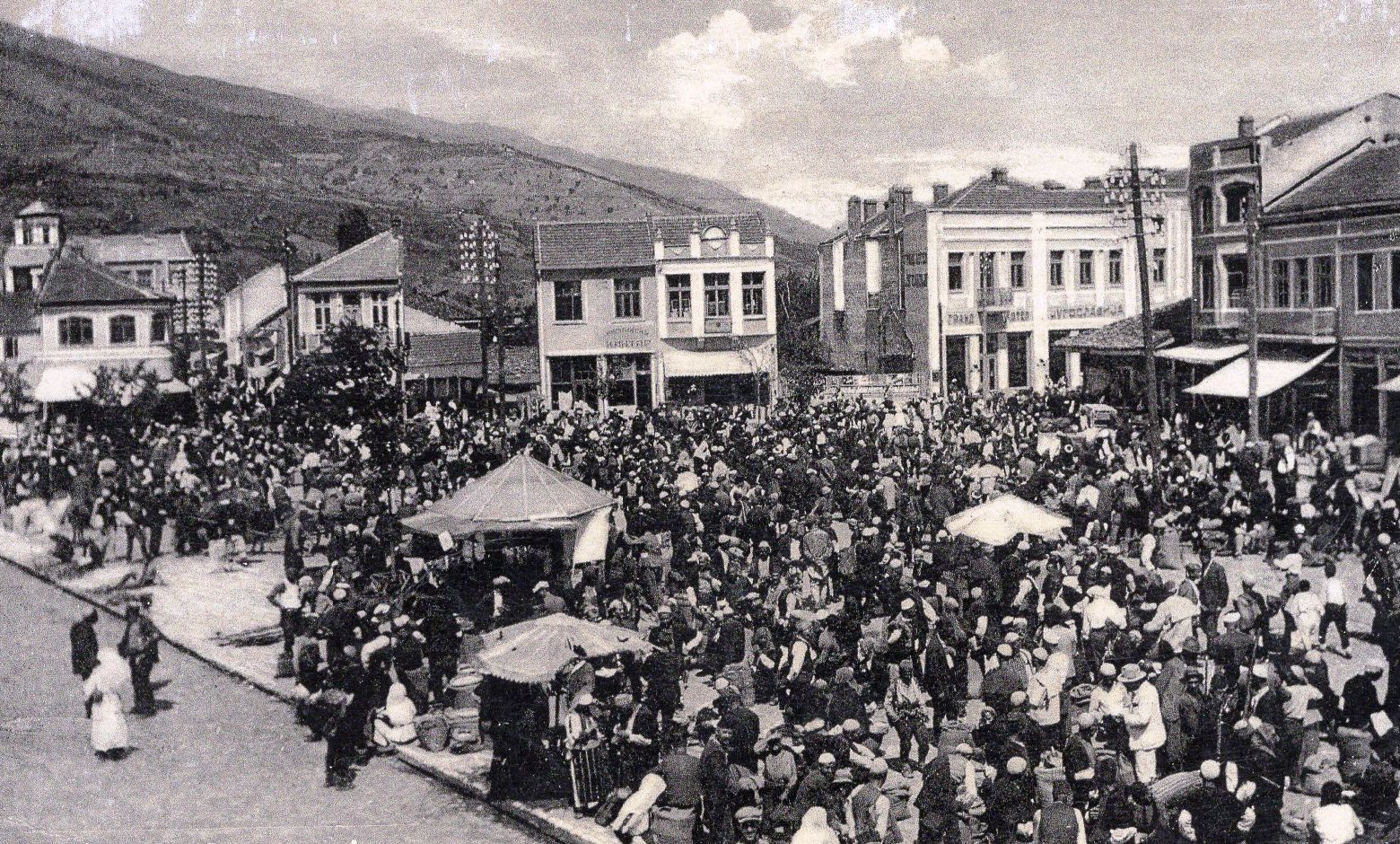 Postcard of Tetovo, 1936 This media file is produced by Wikipedian in Residence in Category:Wikipedian in Residence at DARM in 2016.